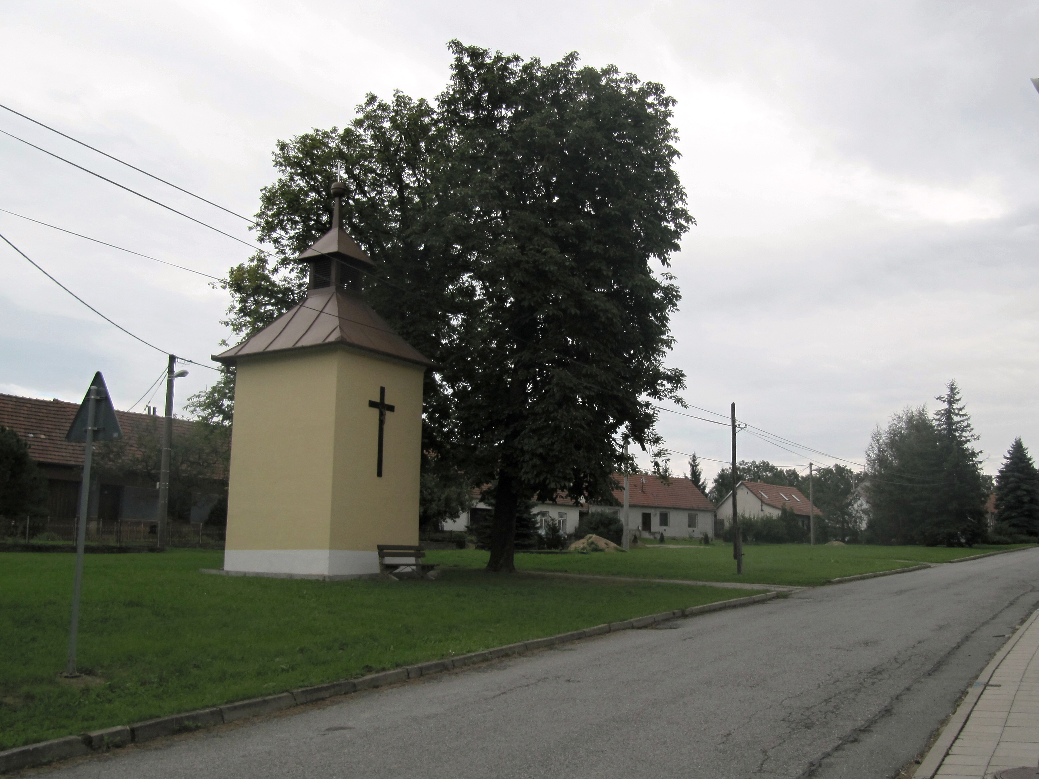 Újezd u Rosic in Brno-Country District, Czech Republic.Common with belfry.